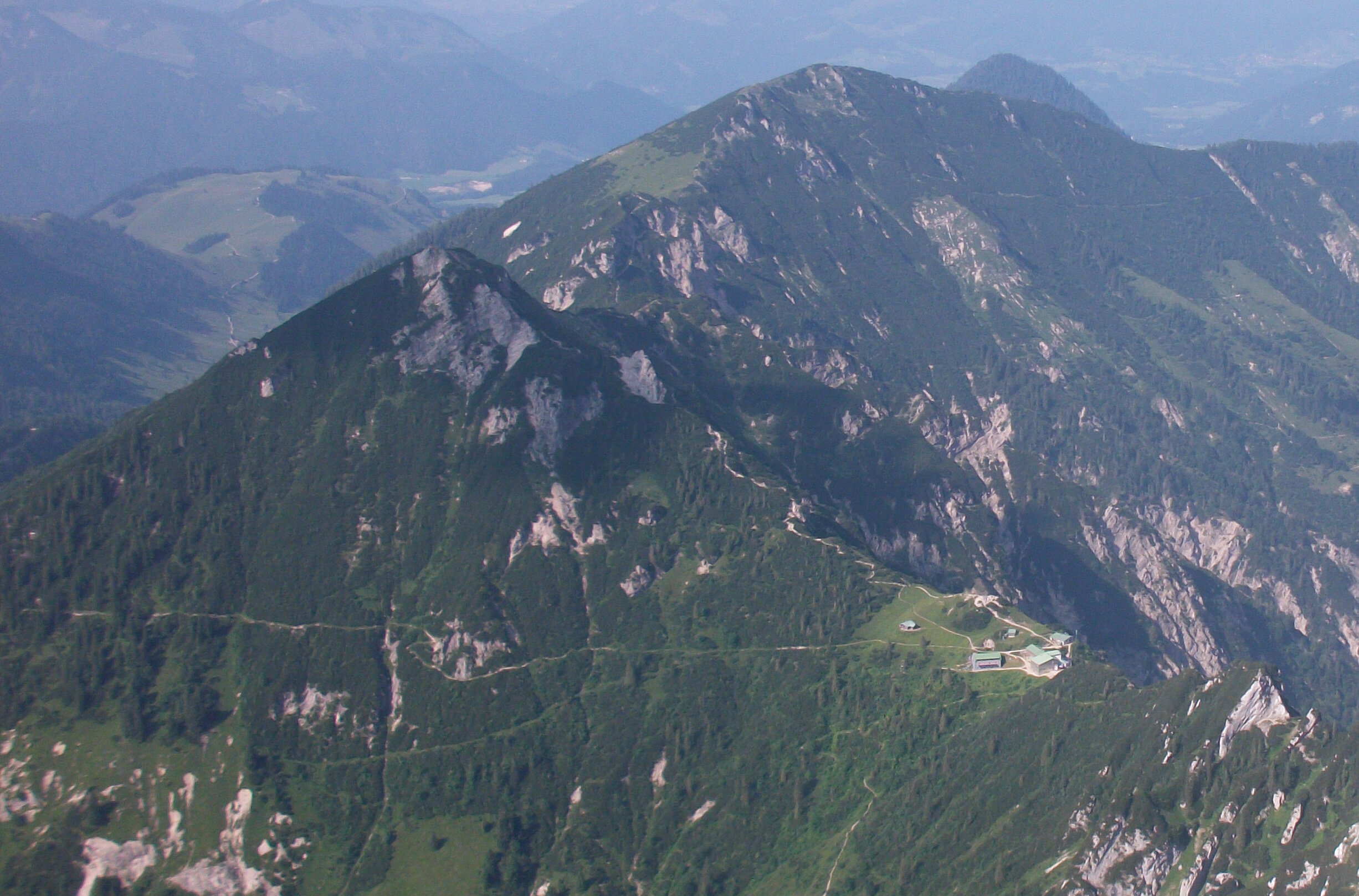 Stripsenjoch, Stripsenjochhaus, Stripsenkopf, Feldberg, Scheibenkogel, Ebersberg